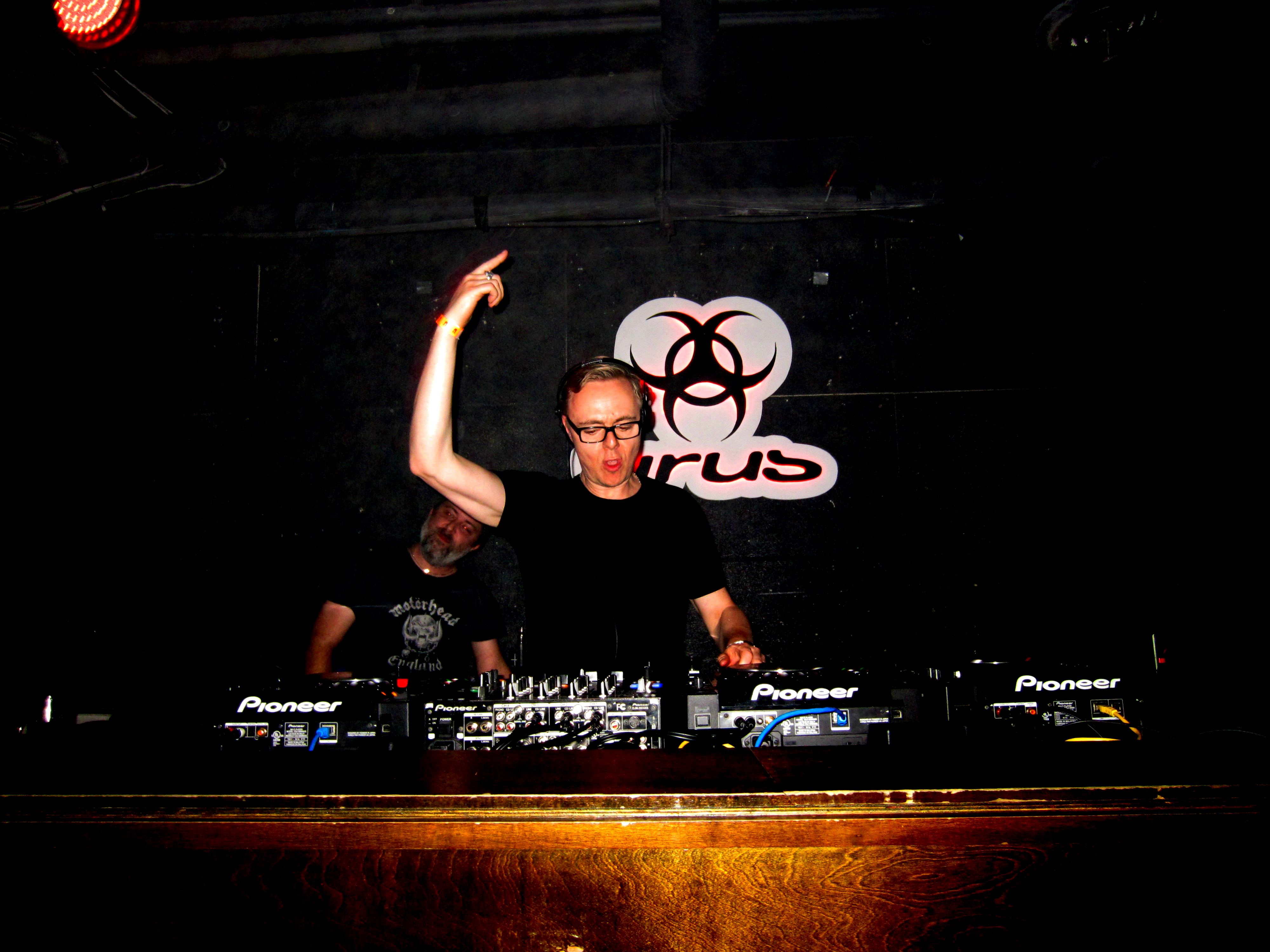 Ed Rush and Optical at U Street Music Hall in Washington, D.C.